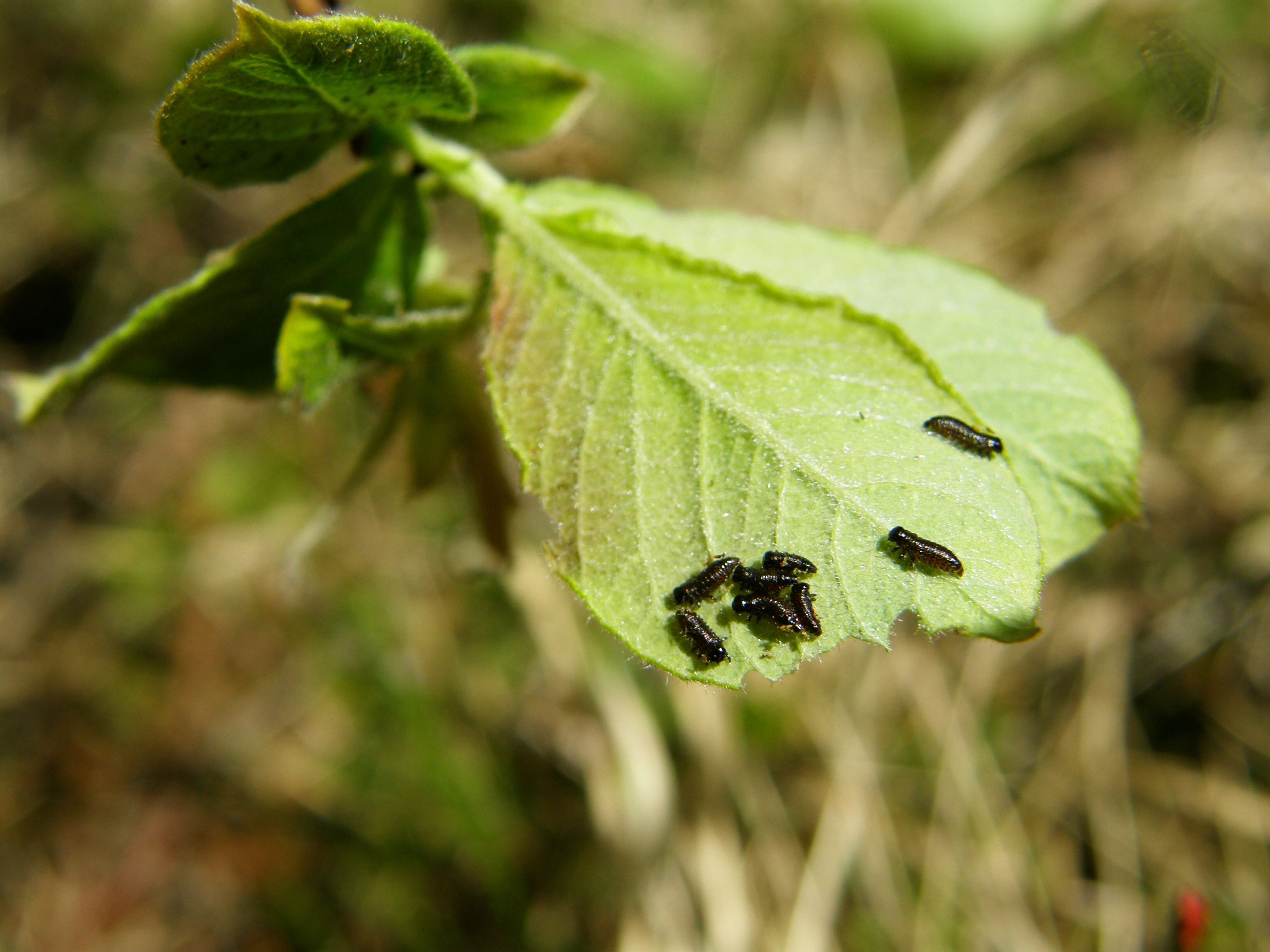 PR (Nature reserve) Vřesová stráň